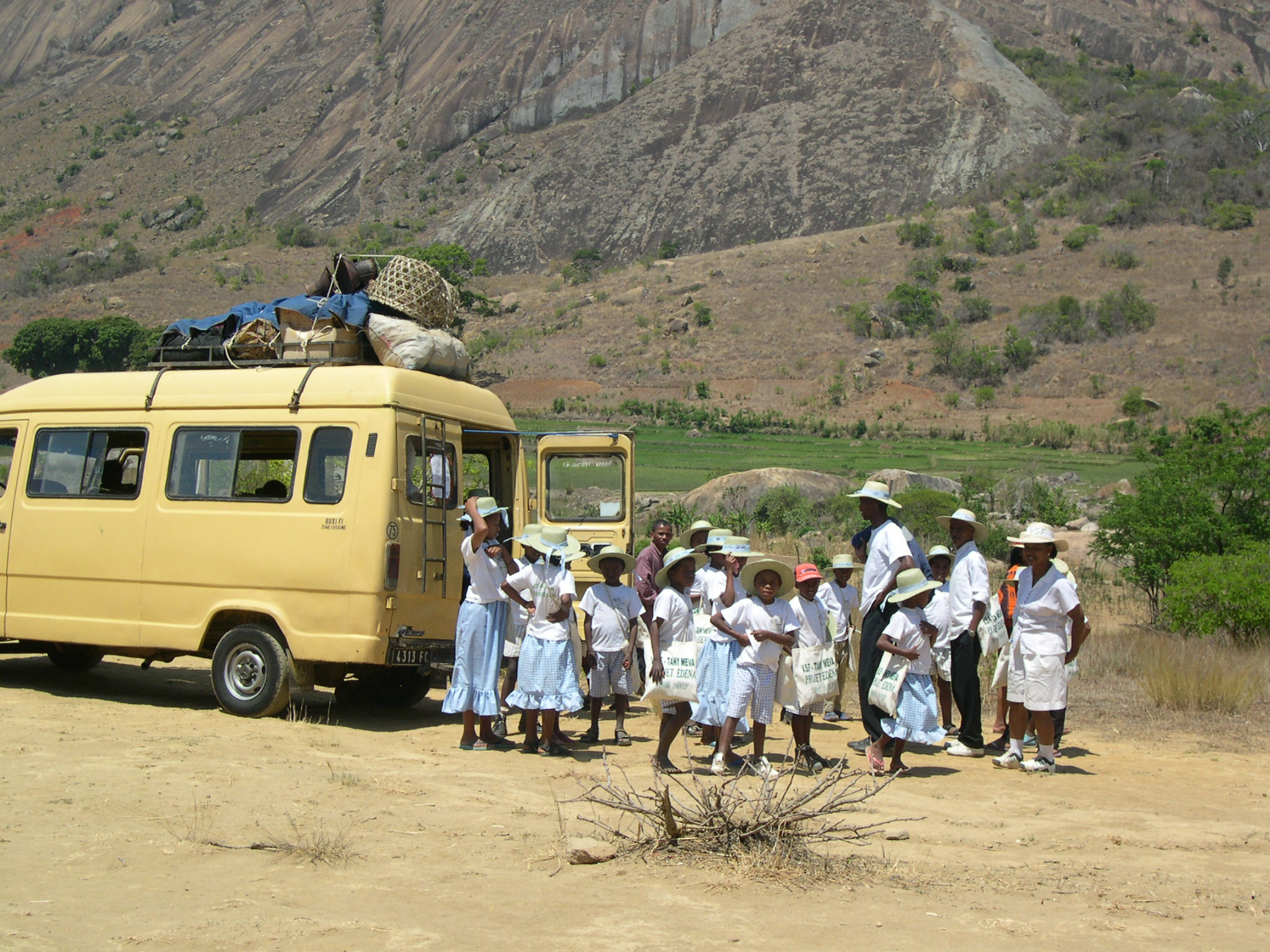 School trip